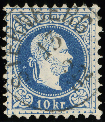 Austrian KK 10 kreuzer stamp, fine beard, cancelled at STERNBERG (Moravia).